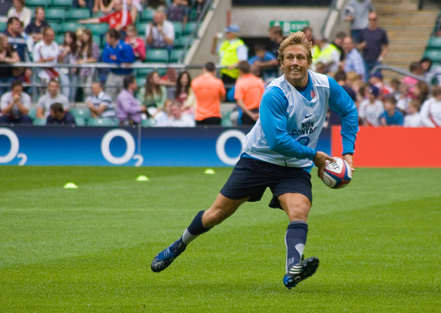 Jonny Wilkinson à l'entraînement avec le XV de la Rose. Prise le 12 août 2009. Jonny Wilkinson with English team training session in Twickenham stadium. 12 August 2009.